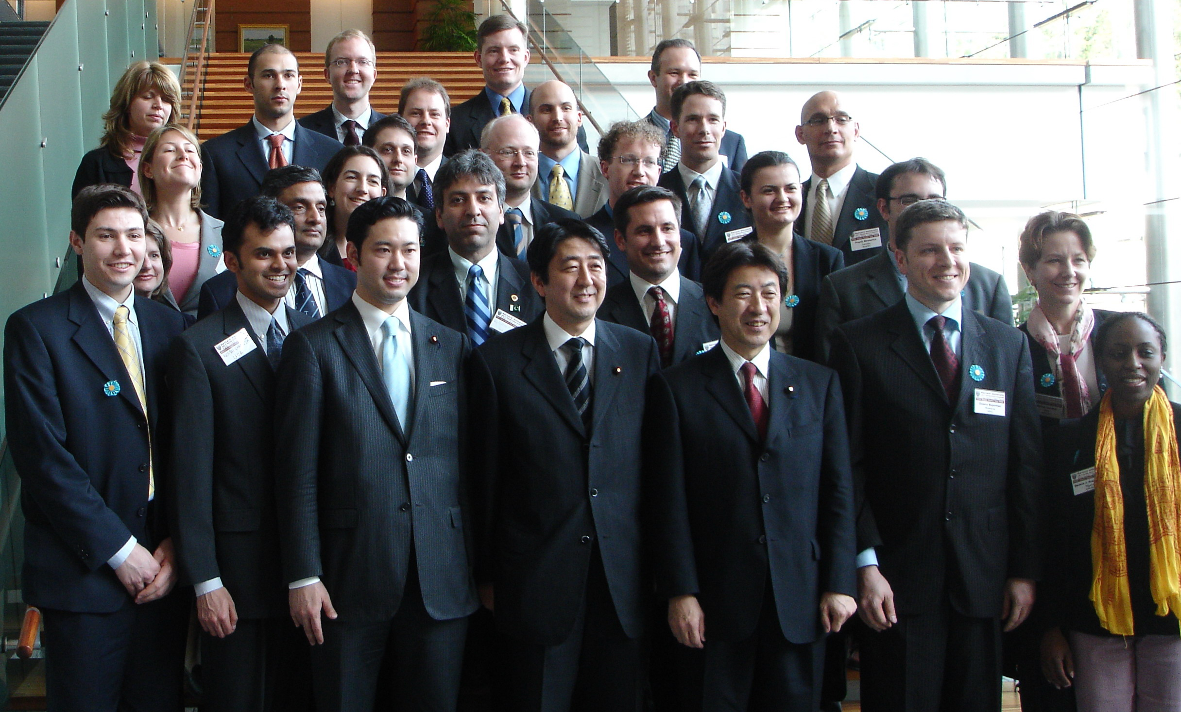 The 90th Prime Minister of Japan Shinzō Abe with a group of students from John F. Kennedy School of Government, Harvard University. His Chief Cabinet Secretary Yasuhisa Shiozaki, himself a graduate of the same school, is standing to his left. The Picture was taken in the central hall of the Official Residence of the Prime Minister of Japan known as Kantei in the end of March 2006. At that time Prime Minister Shinzo Abe was the Chief Cabinet Secretary of Japan in the cabinet of Junichiro Koizumi (87th, 88th, and 89th Prime Minister of Japan).